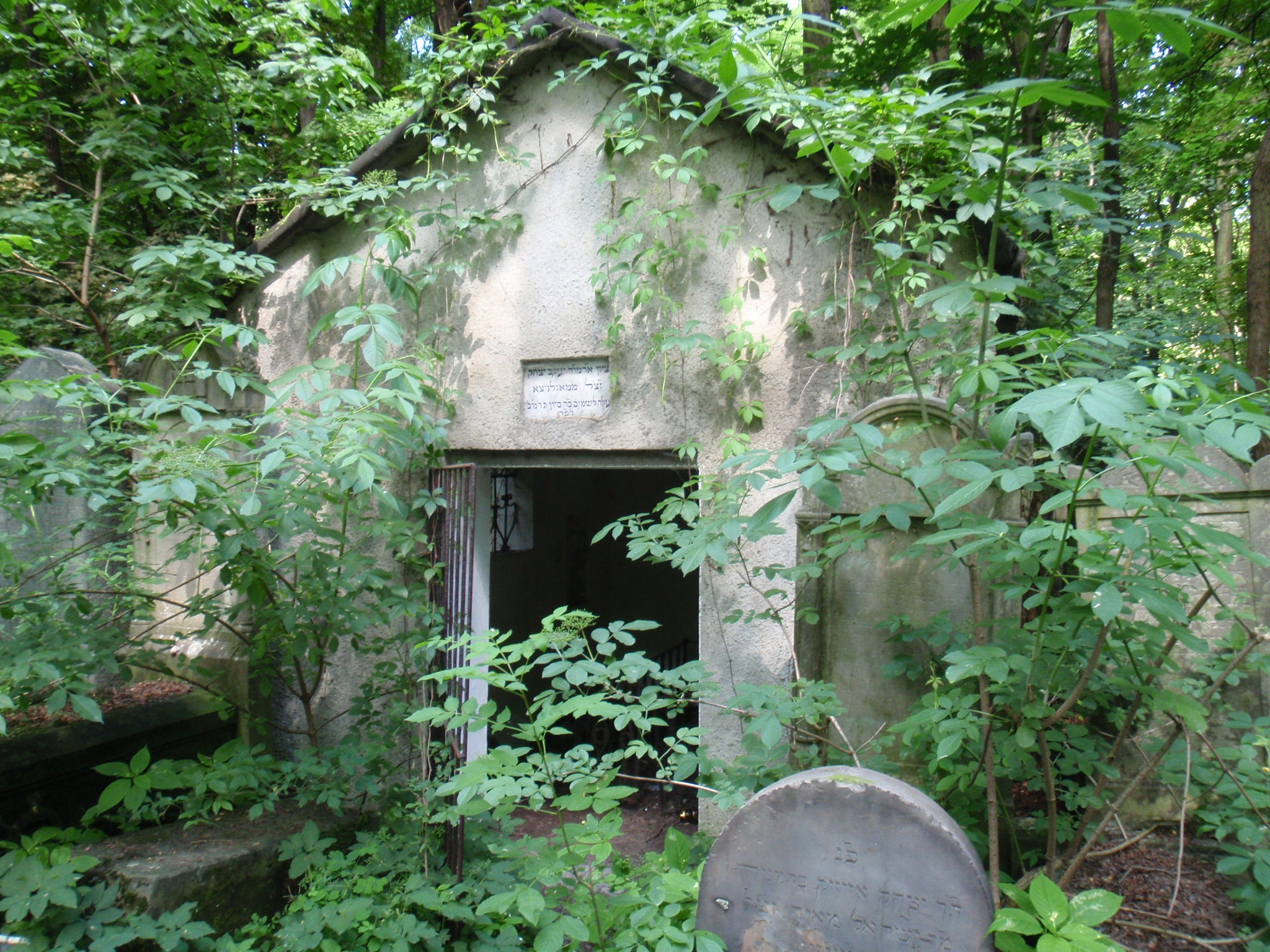 Ohel of Jakub Izaak Szapira from Mogielnica - Mogielnitzer Rebe - Tzadik from Mogielnica